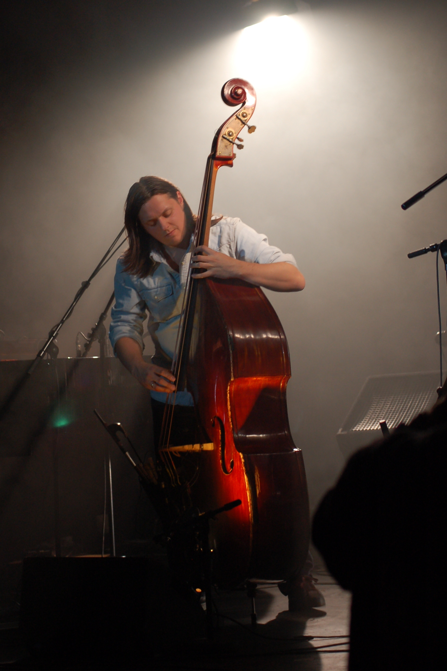 Roger Arntzen. Photo: Thomas Bjørndahl